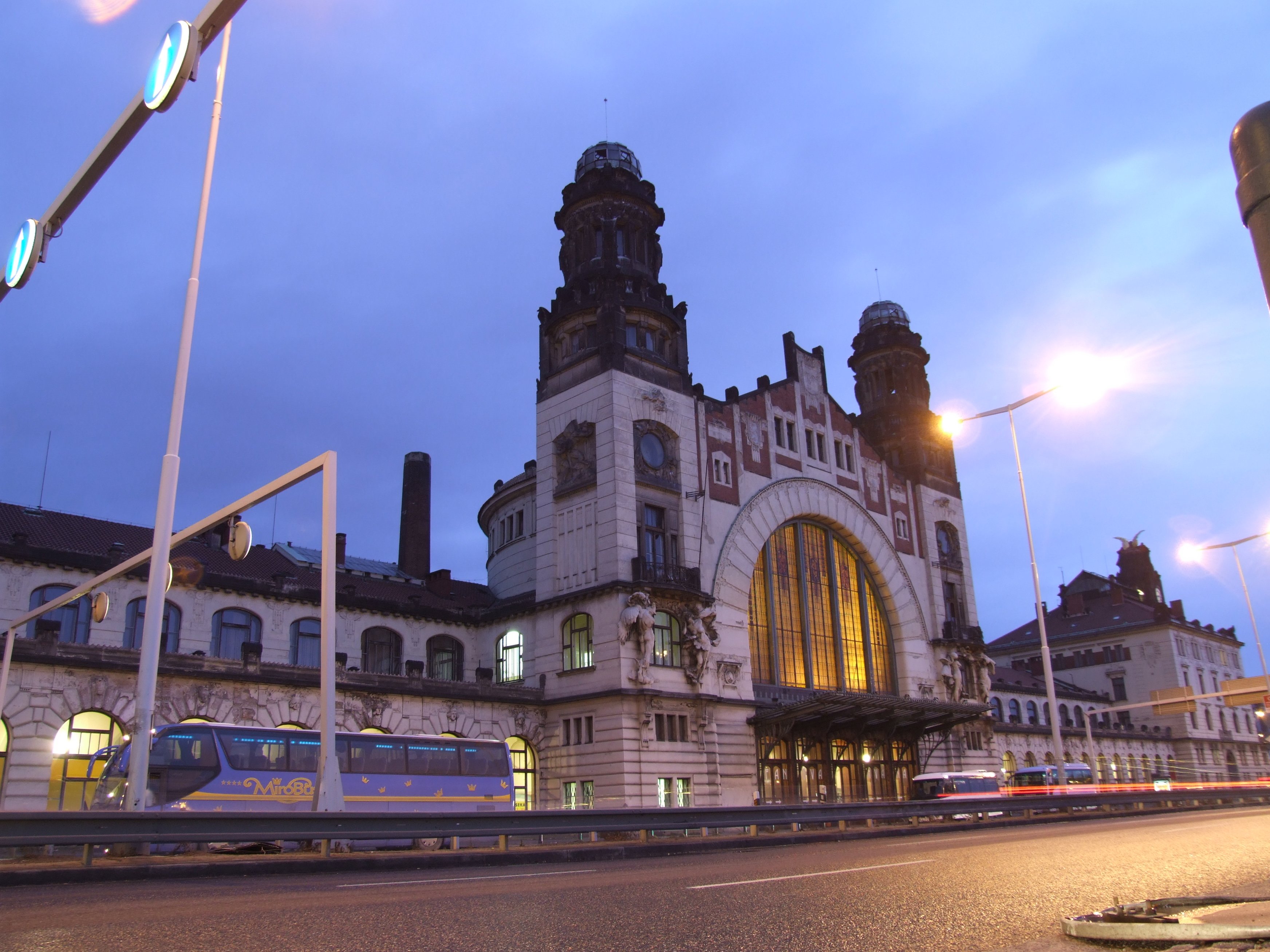 Prague's main train station.